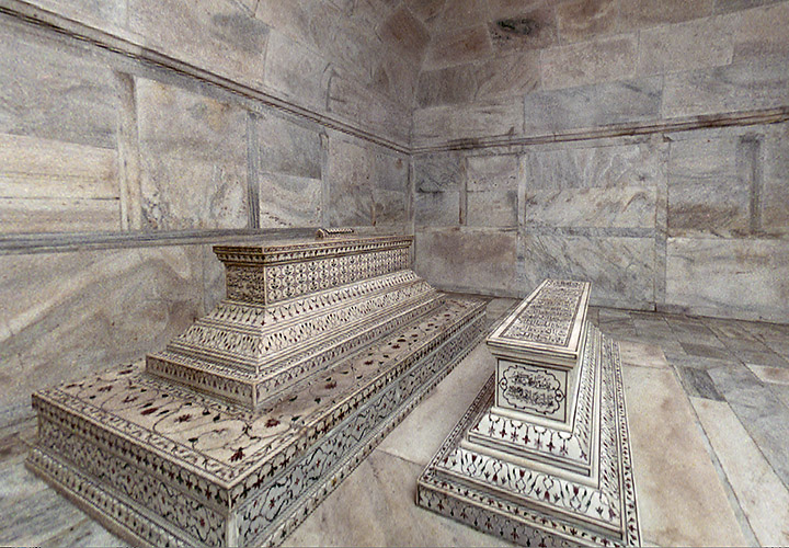 View of the tombs in the Crypt. Author: William Donelson. Courtesy: From email correspondence: Yes. I own all the images which are from my website: Explore the Taj Mahal Regards, William Donelson Armchair Travel Co Ltd